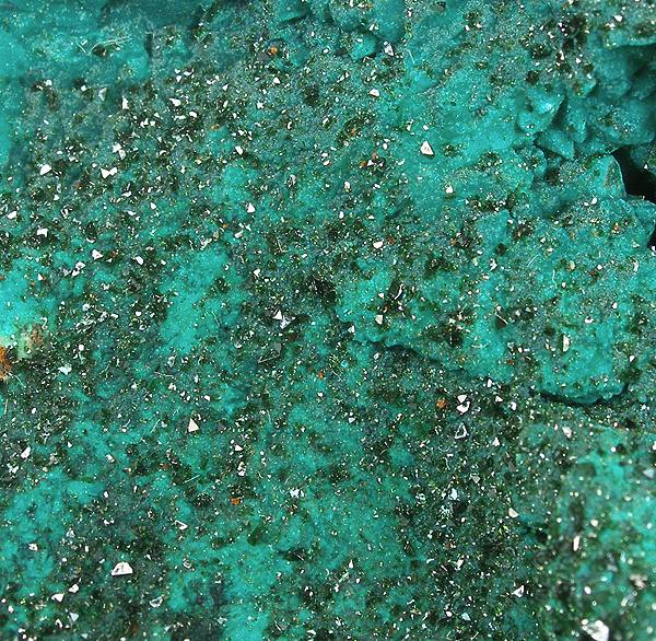 Libethenite Locality: Podlipa and Reinera Mines, Ľubietová (Libetbánya; Libethen) ore belt, Western Slovenské Rudohorie Mts, Banská Bystrica Region, Slovakia (Locality at ) Size: 8.3 x 7.2 x 5.2 cm. Sparkling, gemmy, emerald-green, orthorhombic libethenite microcrystals are festooned on the complimentary malachite crust on quartz matrix on this fine specimen from the Type Locality - Lubietova, Slovakia. Highly representative and very rich combination material from this famous locale. Ex. Wes Parker Collection.